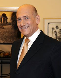 Secretary Clinton with Ehud Olmert.